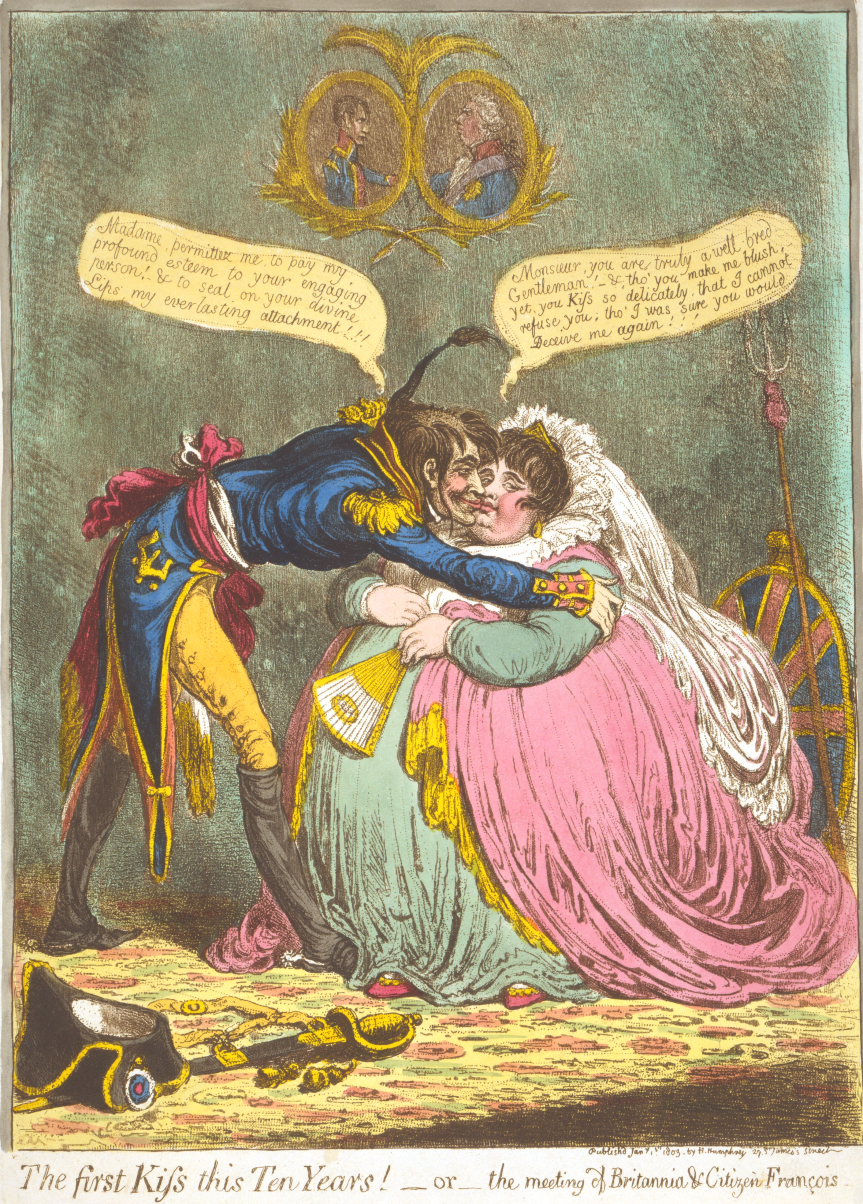 Caricature on the Peace of Amiens by James Gillray Title: The first Kiss this Ten Years! —or—the meeting of Britannia & Citizen François SUMMARY: A tall, thin, French officer kissing a fat, richly dressed, seated Britannia. His hat and sword lie on the carpet. Britannia's shield and trident rest on the wall behind her chair. Above them are portraits of George III and Napoleon, facing each other. The officer is saying, "Madame, permittez me to pay my profound esteem to your engaging person!— & to seal on your divine Lips my everlasting attachment!!!" Britannia is saying, "Monsieur, you are truly a well-bred Gentleman!— &, tho' you make me blush, yet, you Kiss so delicately, that I cannot refuse you, tho' I was sure you would Deceive me again!!!" MEDIUM: 1 print : etching, hand-colored. CREATED/PUBLISHED: [London] : H. Humphrey, 1803 Jany 1st. According to Wright & Evans, Historical and Descriptive Account of the Caricatures of James Gillray (1851, OCLC 59510372), pp. 223–4, "Another clever hit at the peace. The portraits of Napoleon and King George, suspended on the wall, appear to be shaking hands, but with a very bad grace. This caricature is said to have excited Napoleon's mirth to an unusual degree."